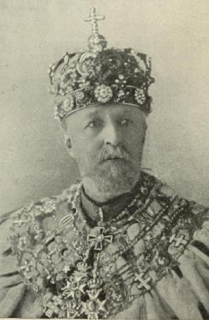 Oscar II of Sweden wearing all Swedish orders